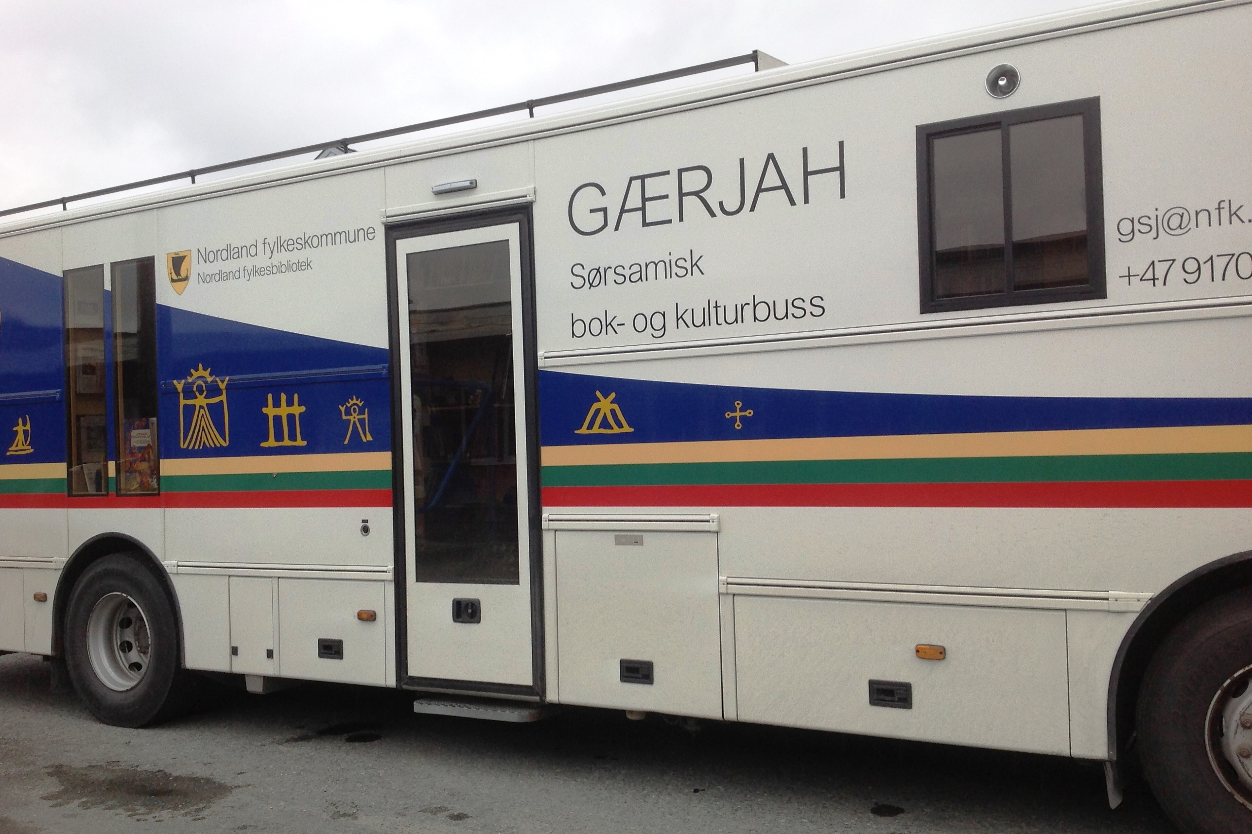 The southern saami bookmobile Gærjah